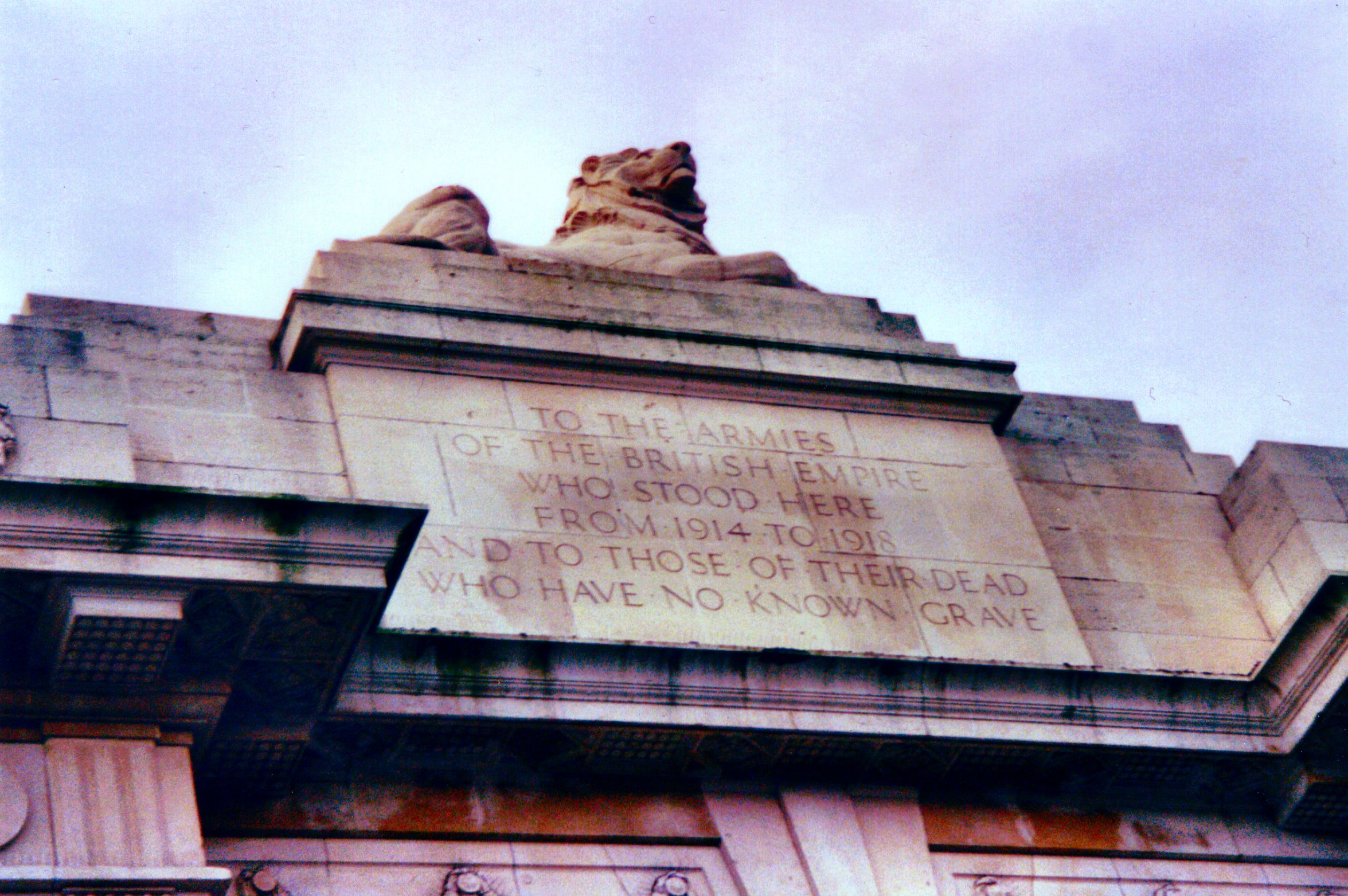 The inscription on the top of the Menin Gate, Ieper, Belgium